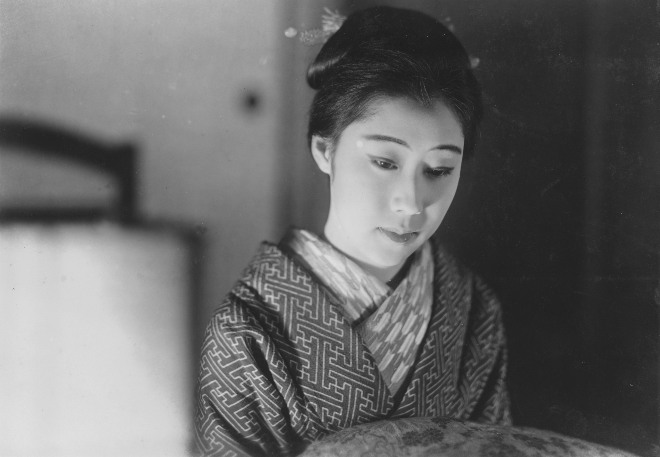 Isuzu Yamada in Orizuru Osen (折鶴お千) directed by Kenji Mizoguchi - 1935